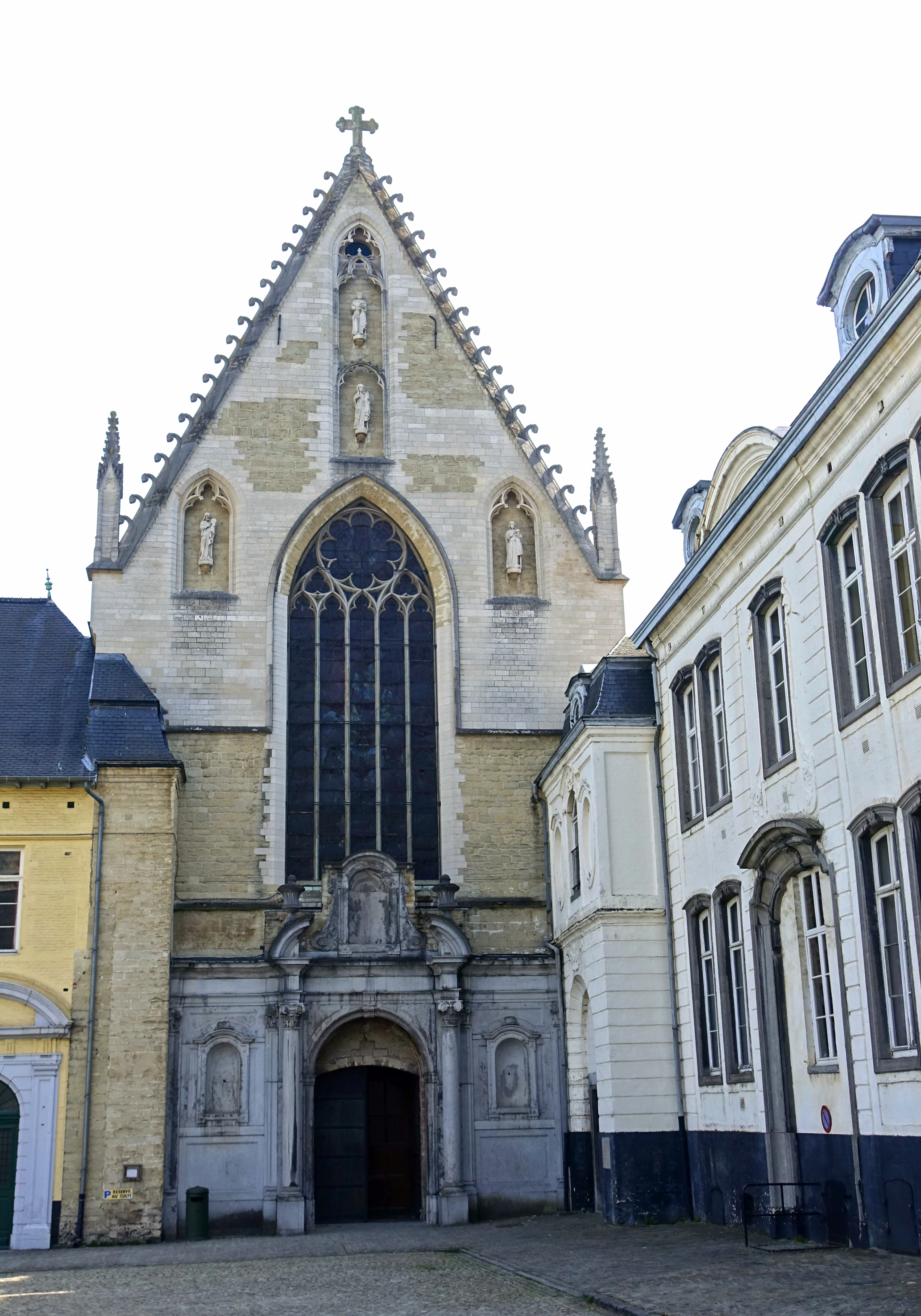 Church facade - La Cambre Abbey - Brussels, Belgium.